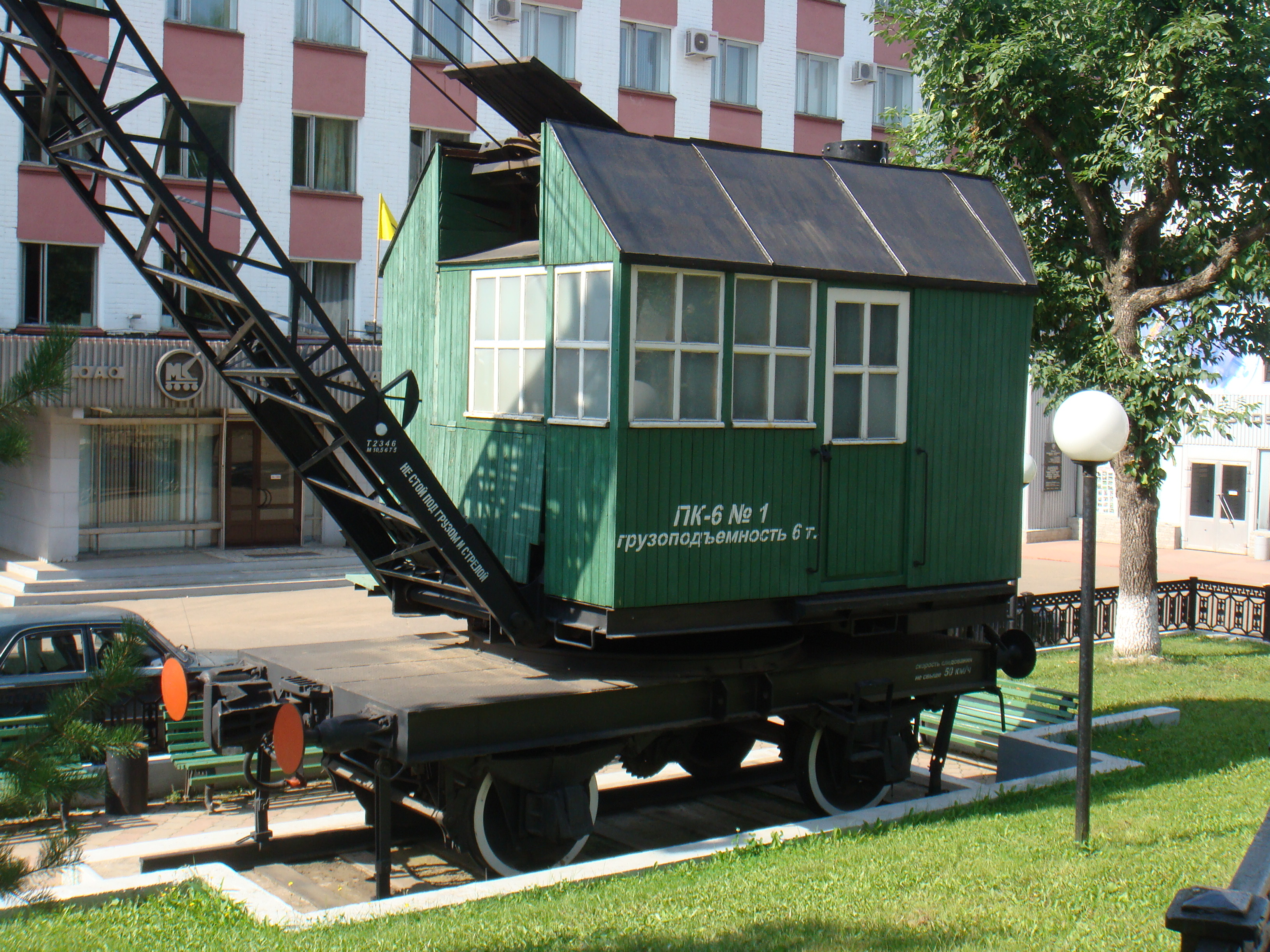 PK-8 crane in Kirov